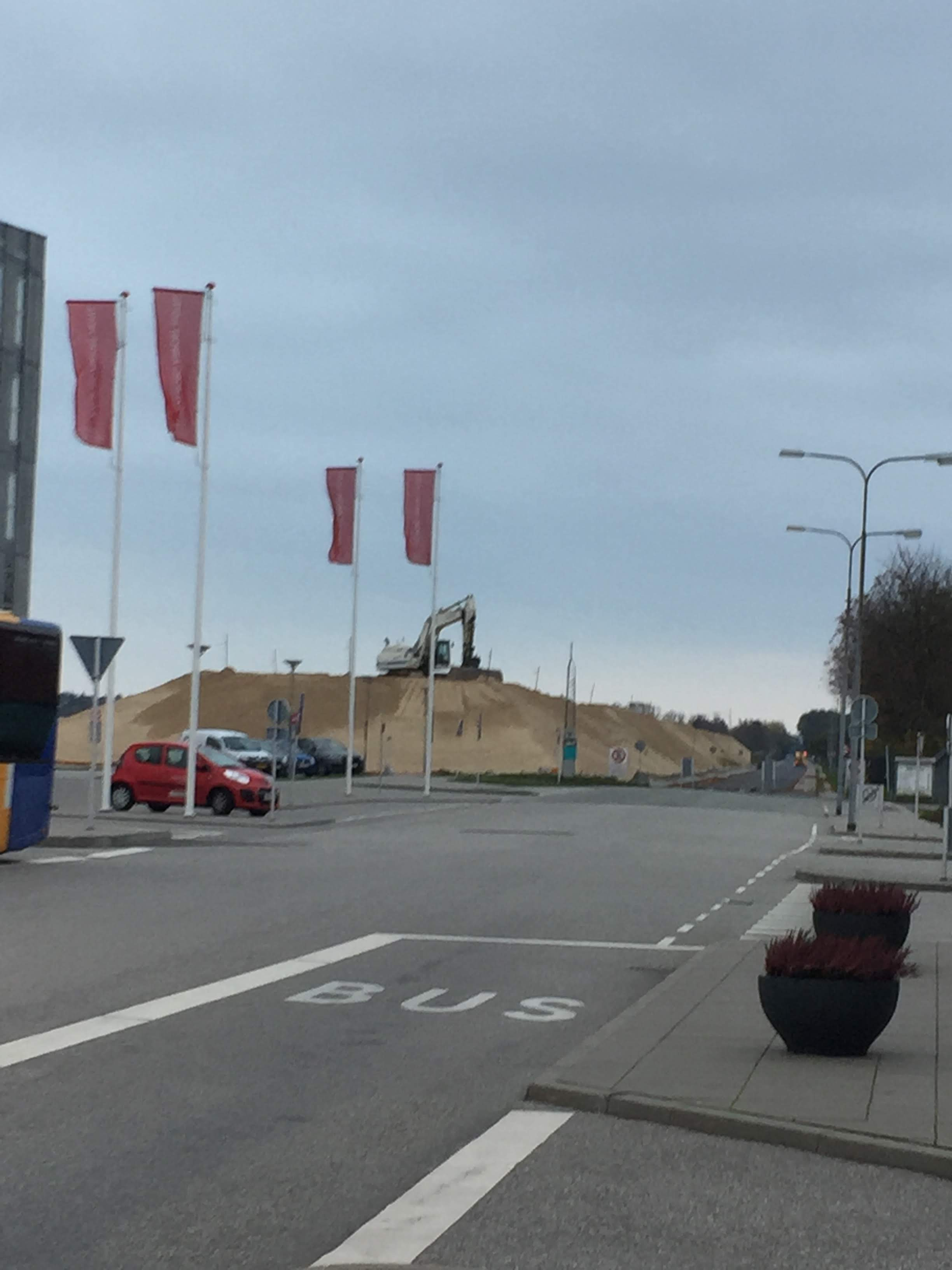 Aalborg Airports new train connection during its building process in October 2018